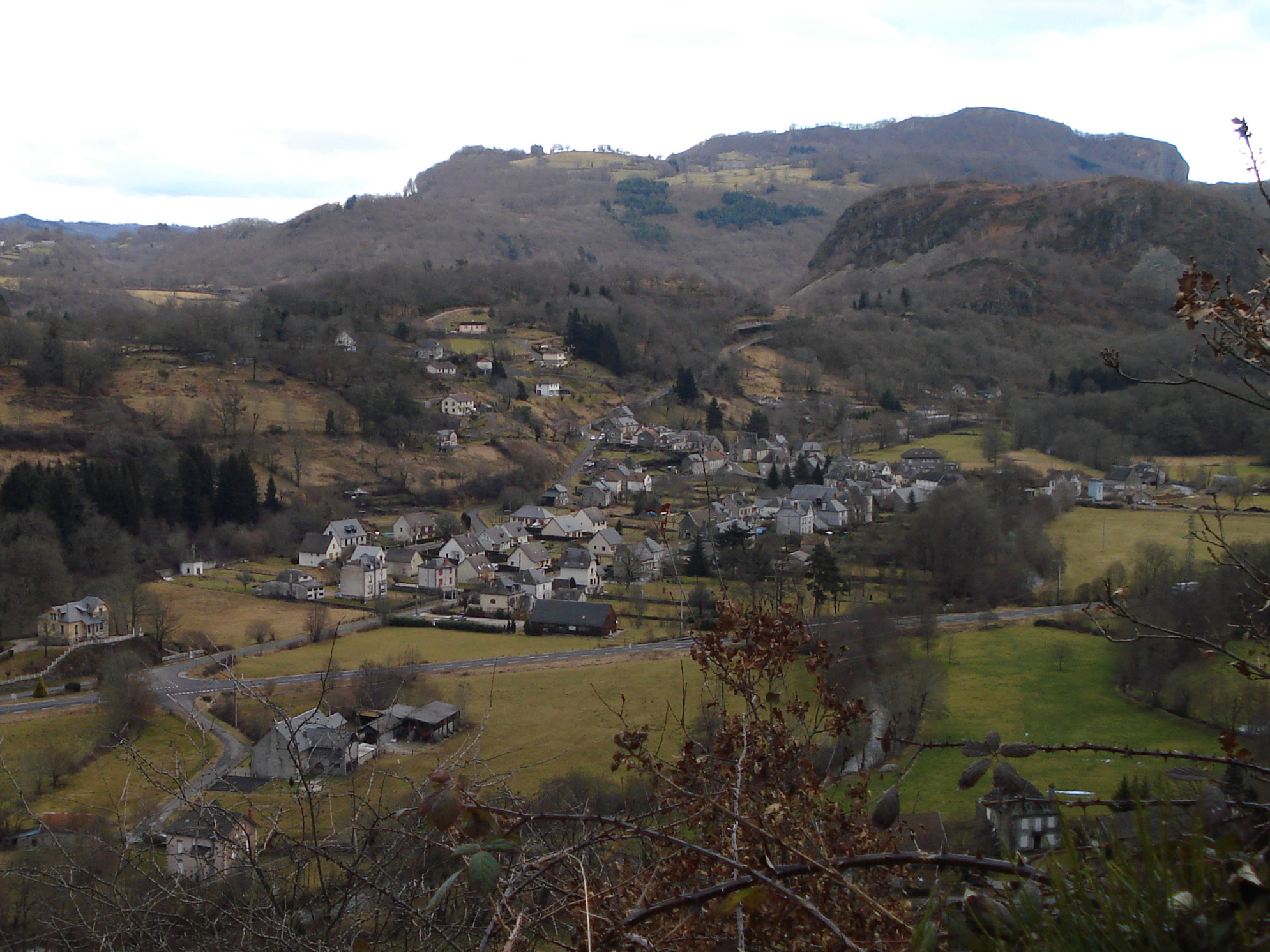 Village of Antignac in Auvergne, France